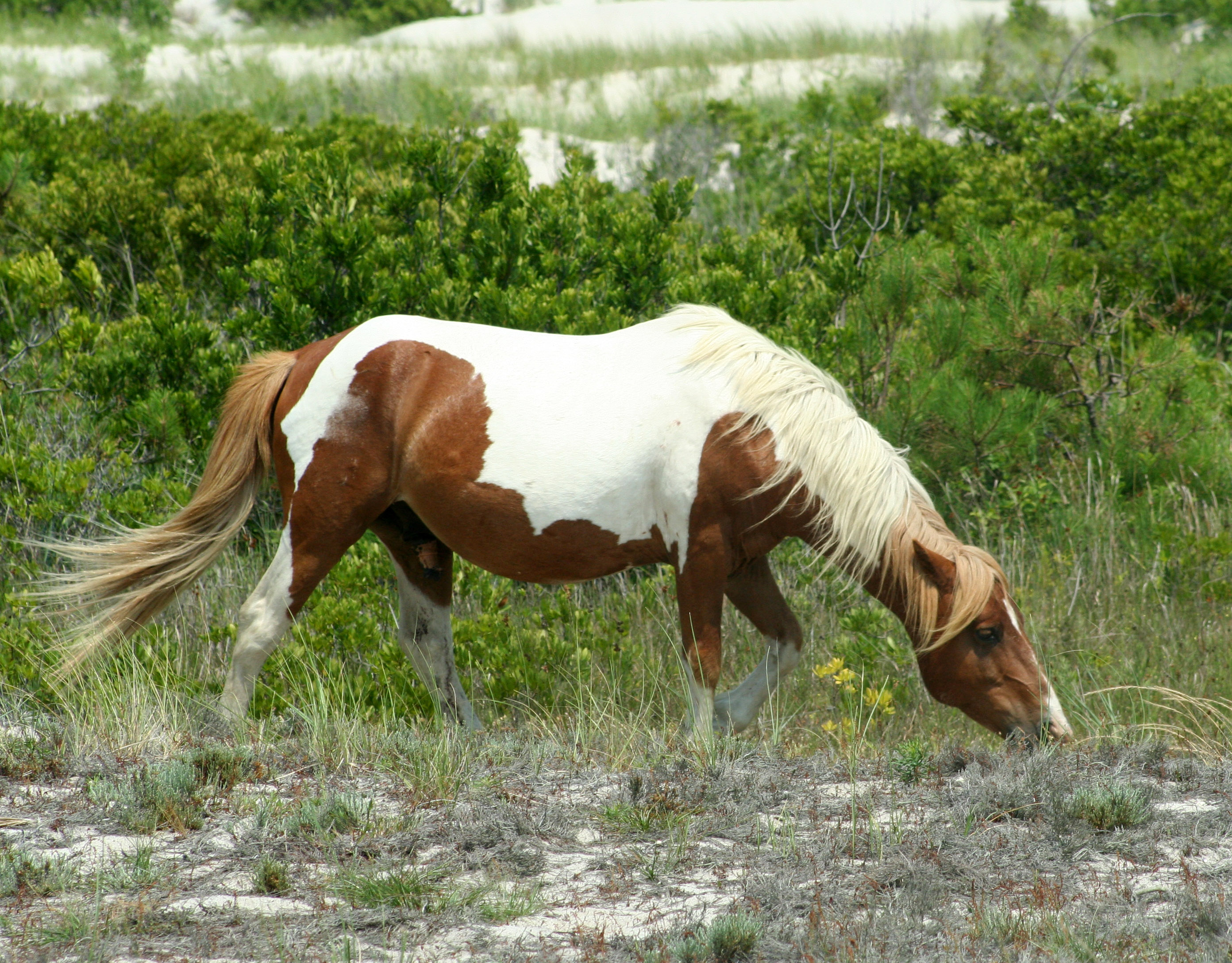 Wild Pony at Assateague Island National Seashore, MD